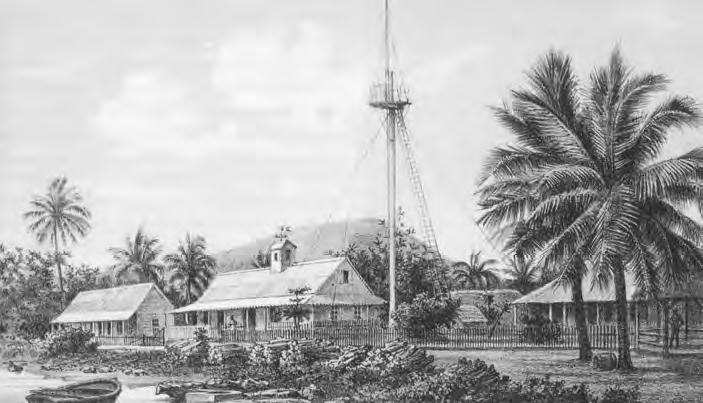 As file